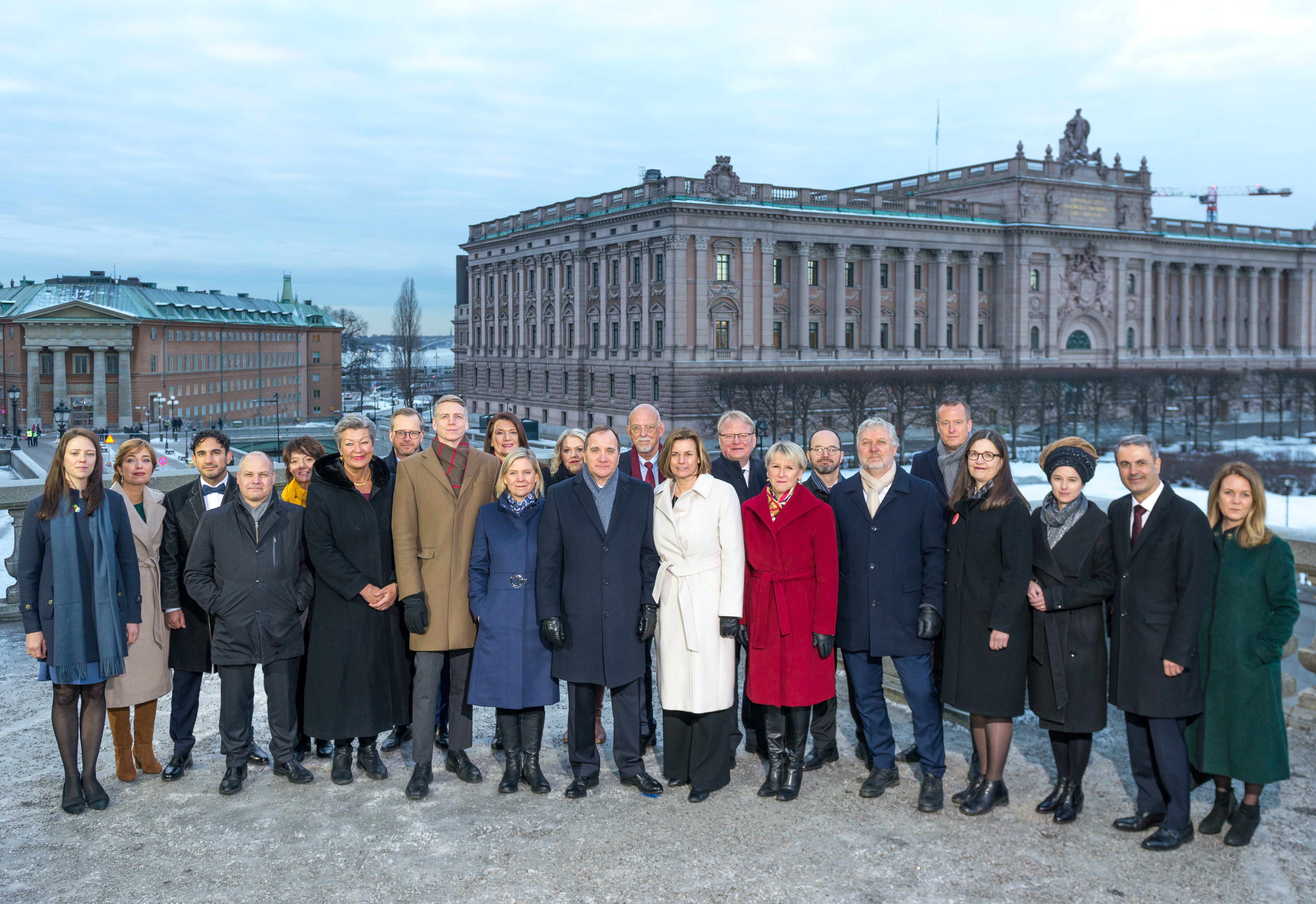 The new government Löfven set up at Lejonbacken outside Stockholm Castle on January 21, 2019.